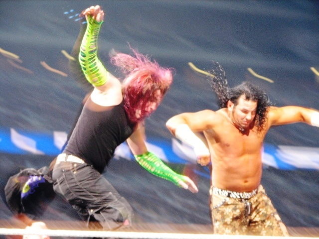 Jeff and Matt Hardy--24.189.99.176 (talk) 20:42, 21 November 2007 (UTC)conor REDIRECT j The Hardys